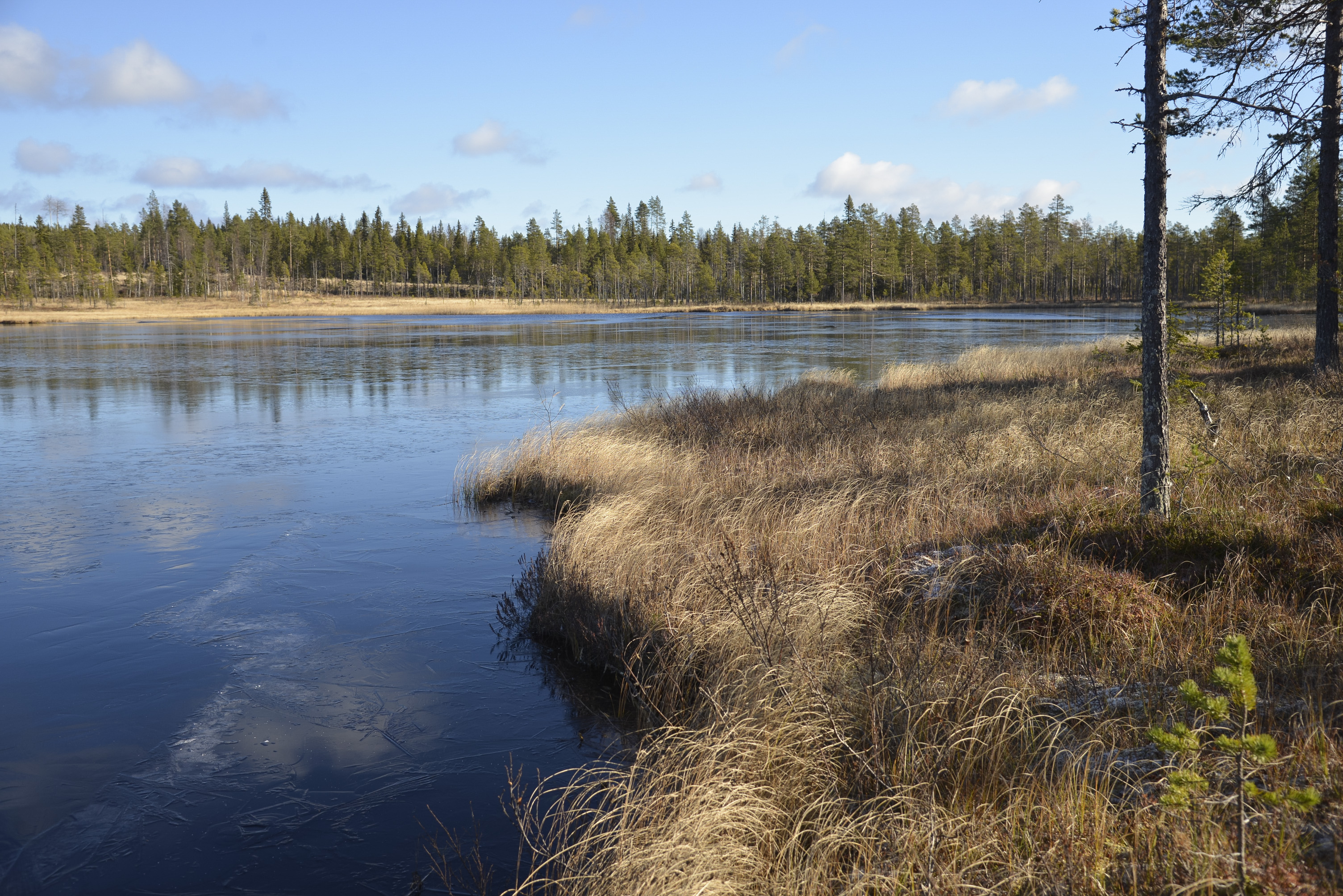 A picture in October of Kallstjärnen